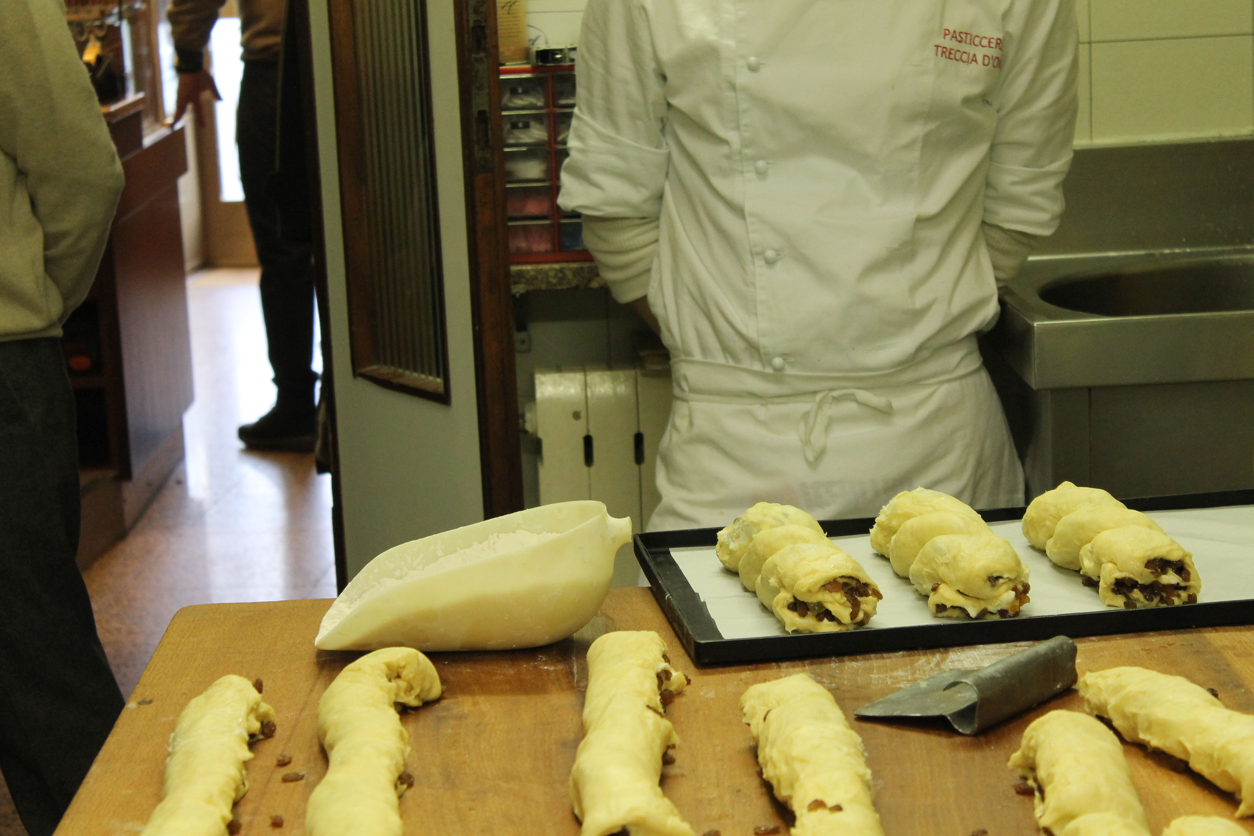 Preparation of "treccia d'oro"